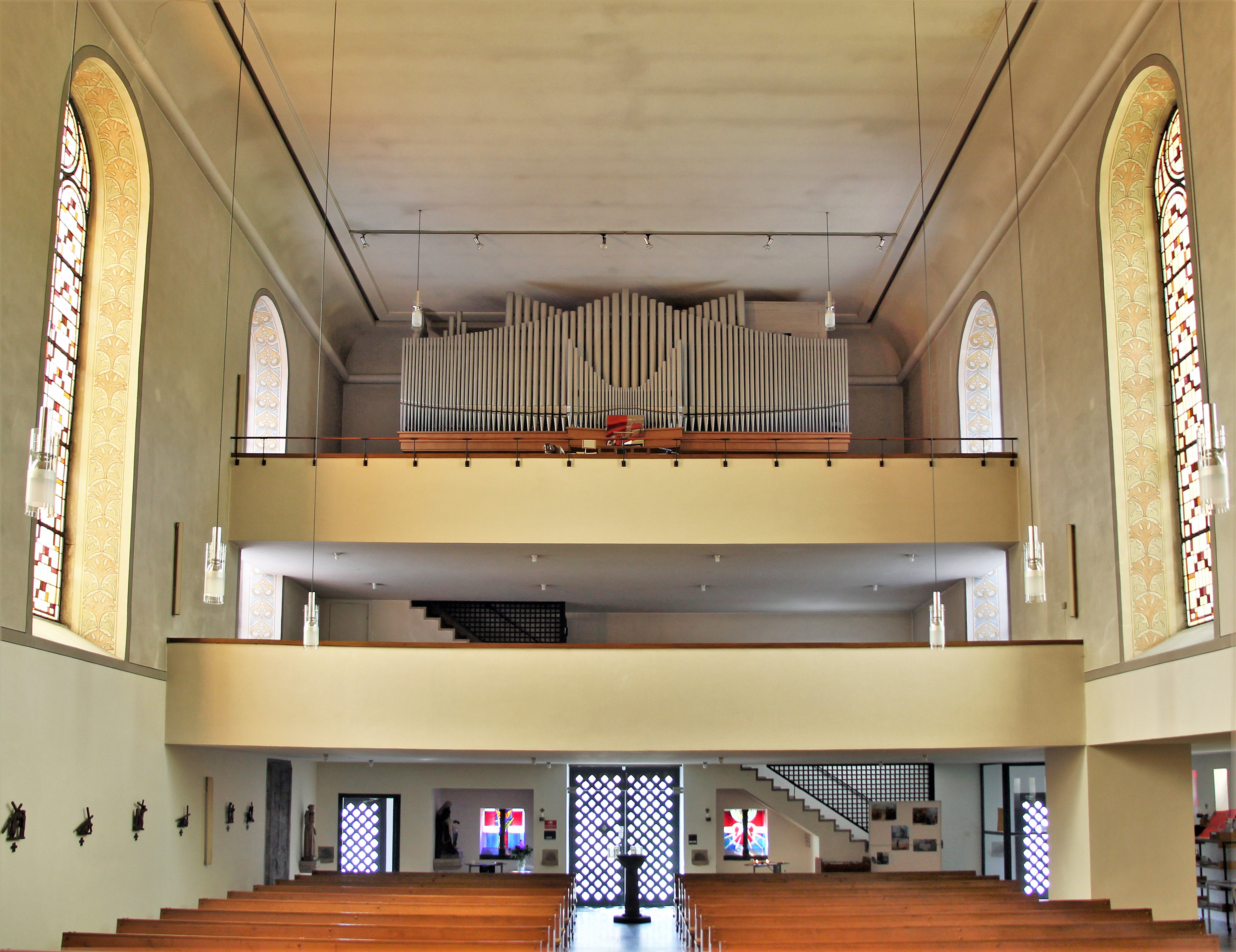 St. Pankratius church in Koblenz